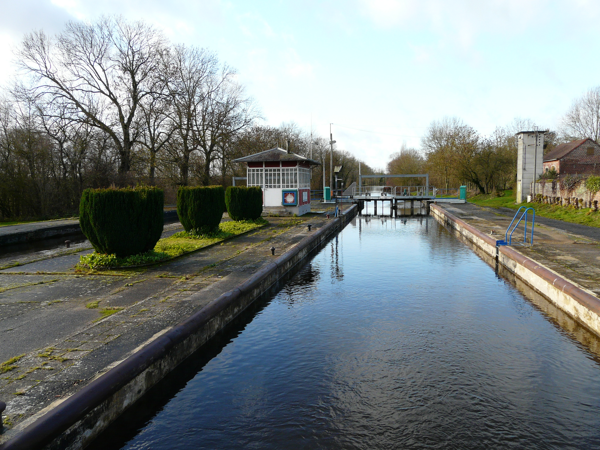 Bracheux locks on canal de Saint-Quentin